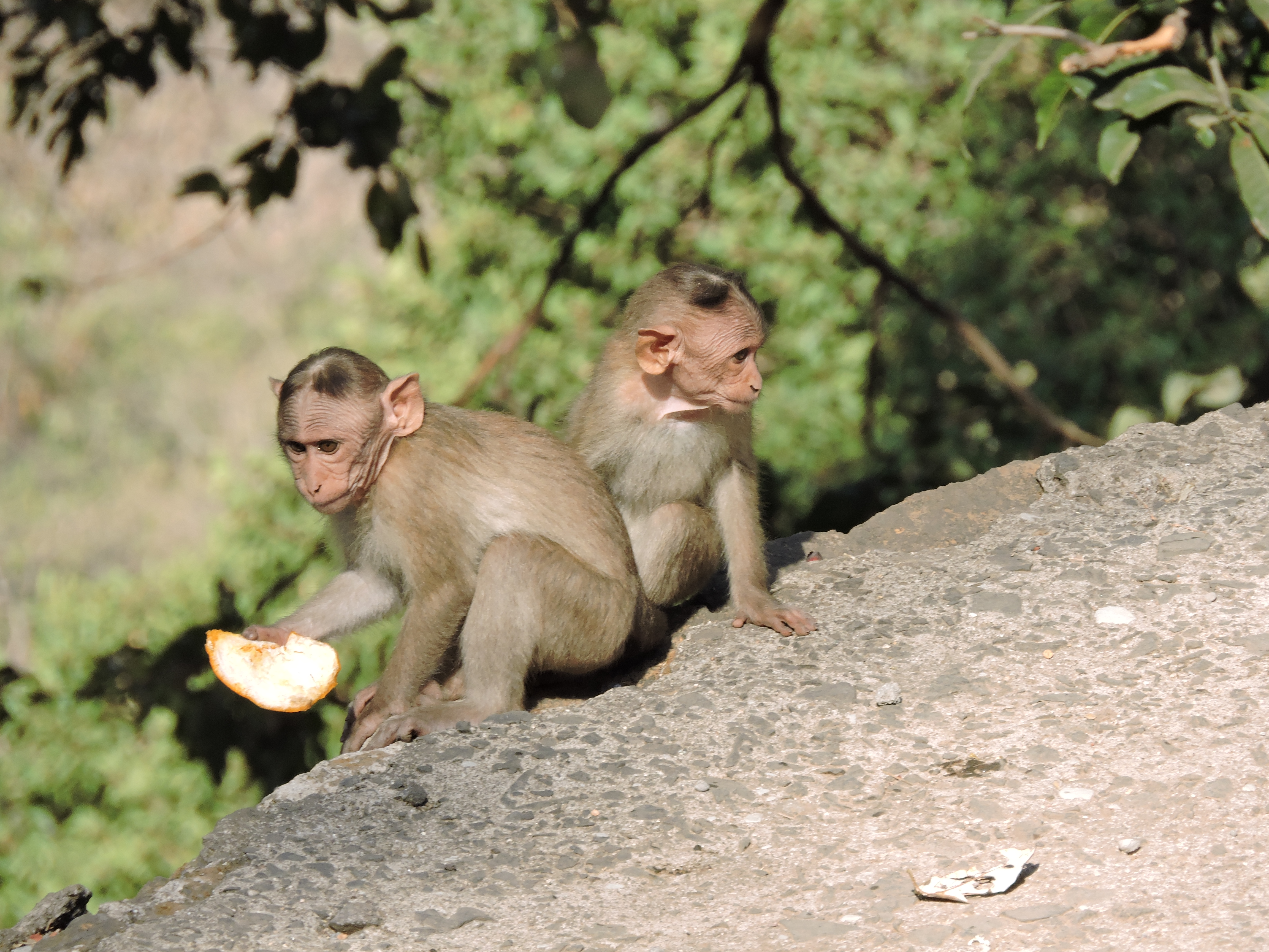 This image shows 2 monkey eating fruit. This scene was captured with both sharing the fruit.